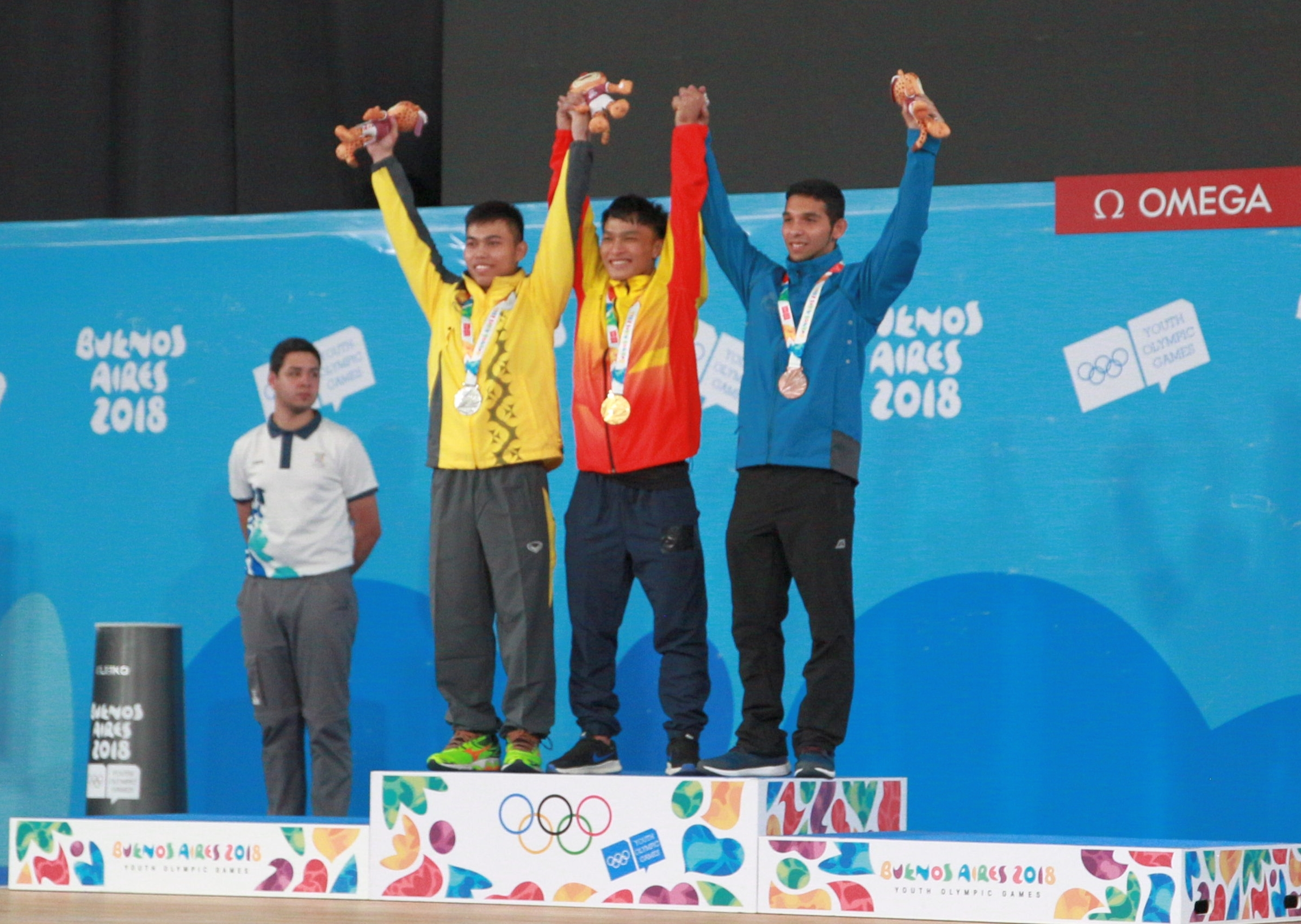 Weightlifting at the 2018 Summer Youth Olympics at 7 October 2018 – Boys' 56 kg